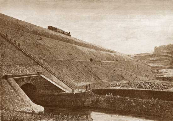 River Verebje. Tube under Moscow-Saint Petersburg Railway.